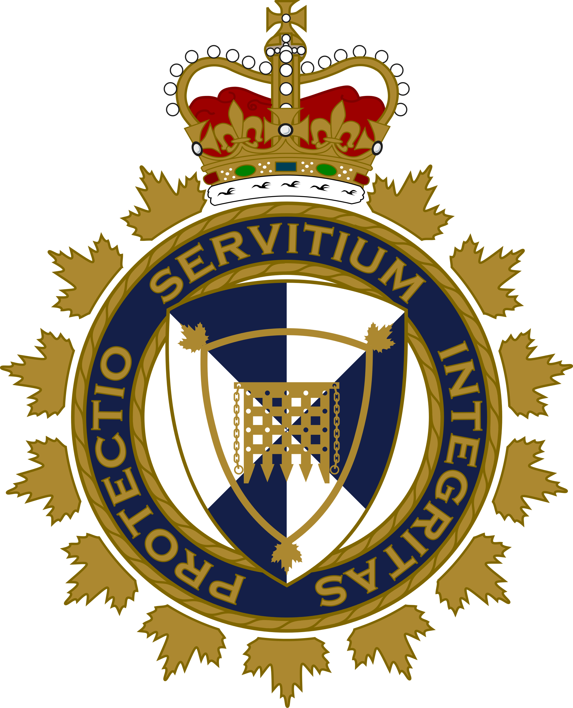 Badge of the Canada Border Services Agency